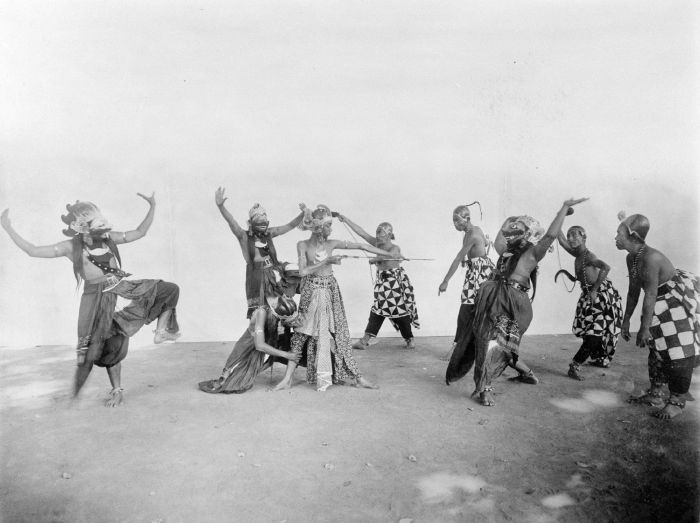 Wayang wong performance 'Jaya Semadi and Sri Suwela' in the palace of the Sultan of Yogyakarta